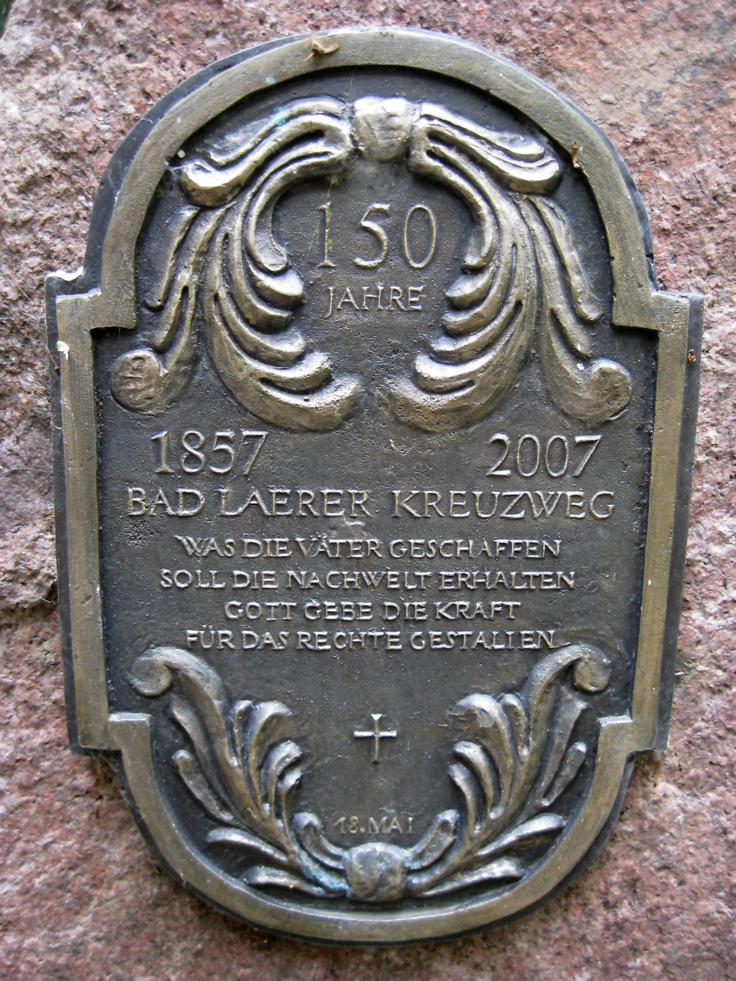 Commemorative plaque at the Cross at the Kalvarienberg in Bad Laer-Hardensetten